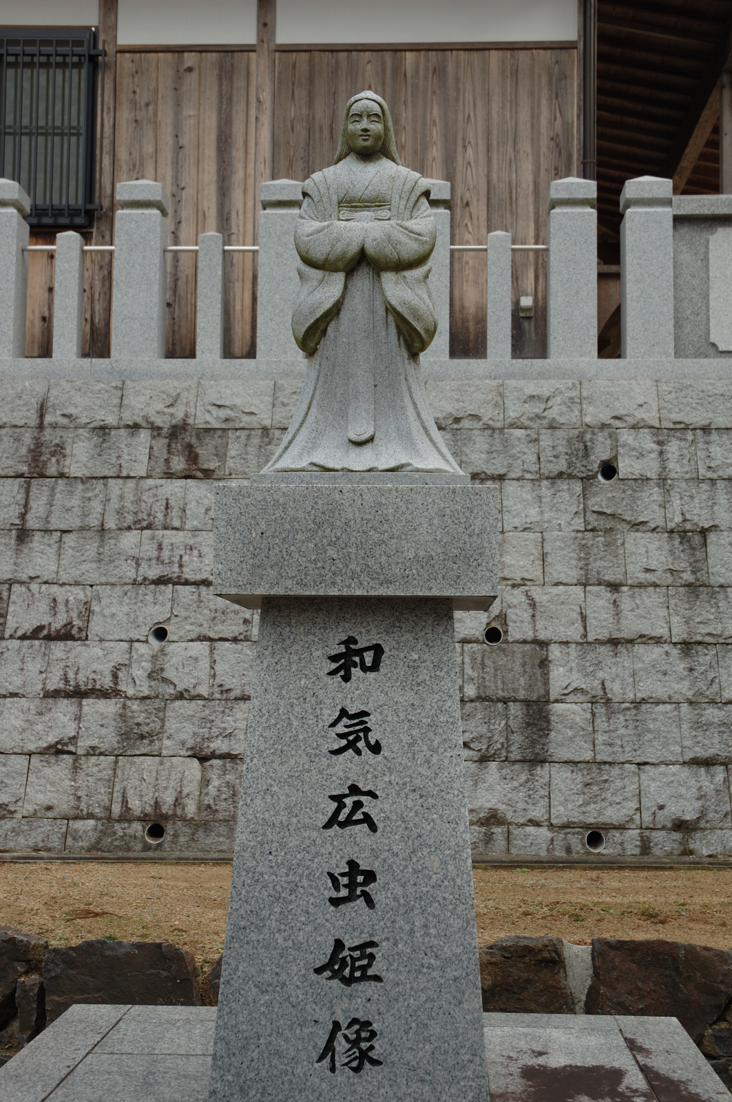 statue of Wake no Hiromushi in Wake shrine